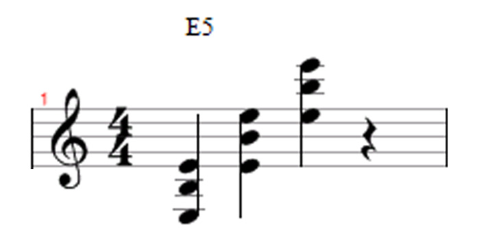 E5 Powerchord